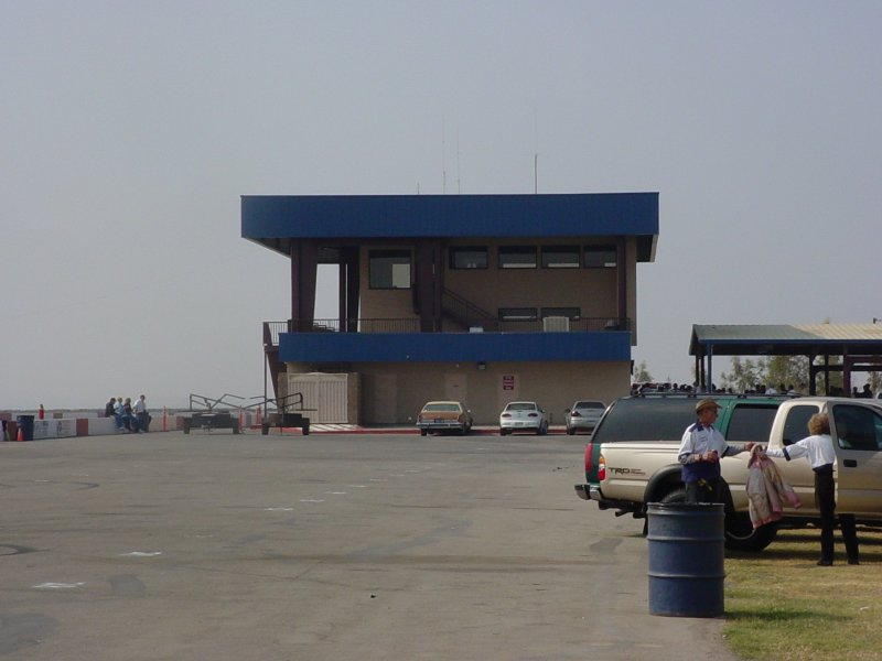 The control tower at Buttonwillow Raceway Park. Taken by Joshua Underwood, October 28, 2002